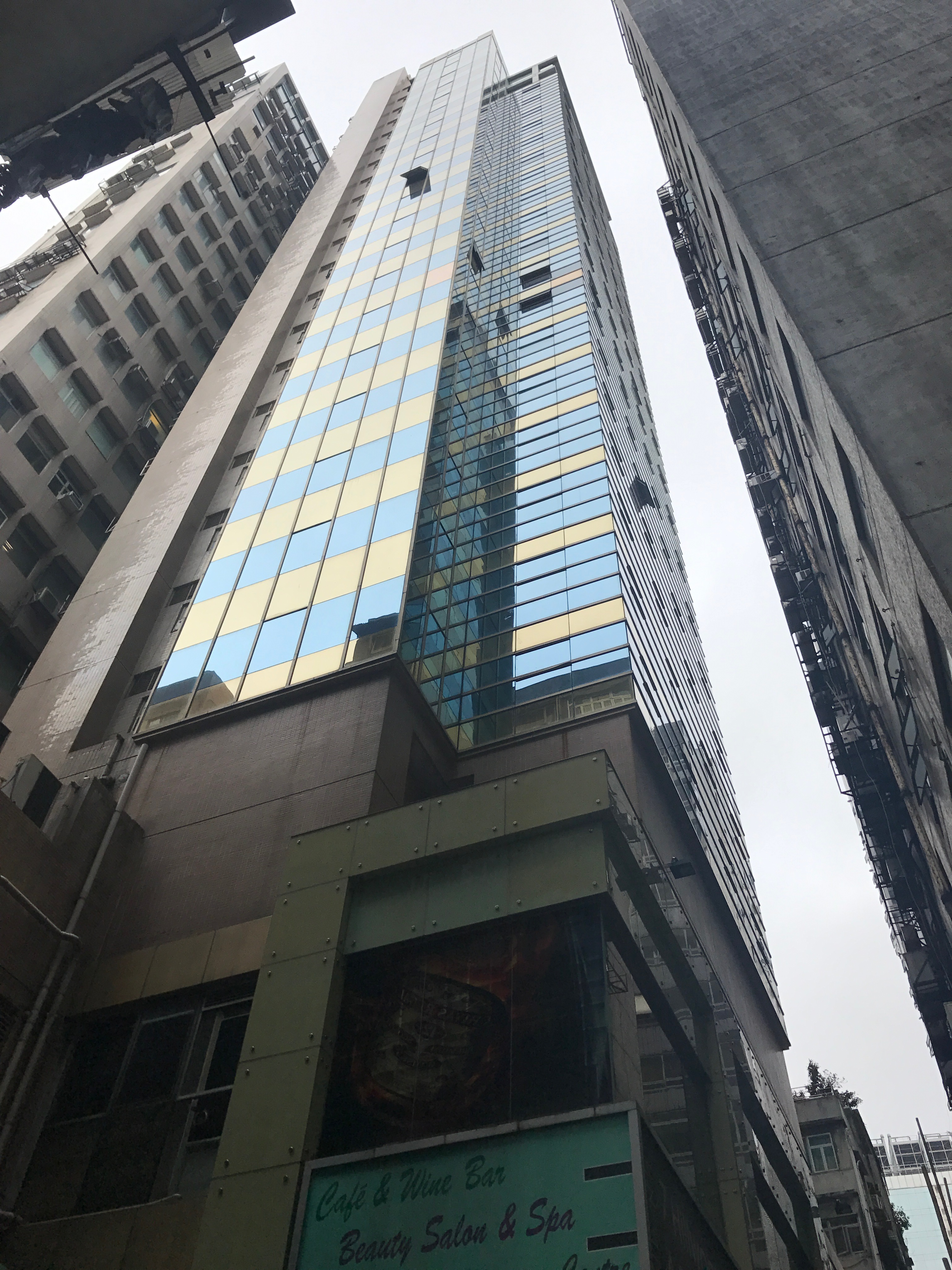 A photo taken for the back of Hon Kwok Jordan Centre